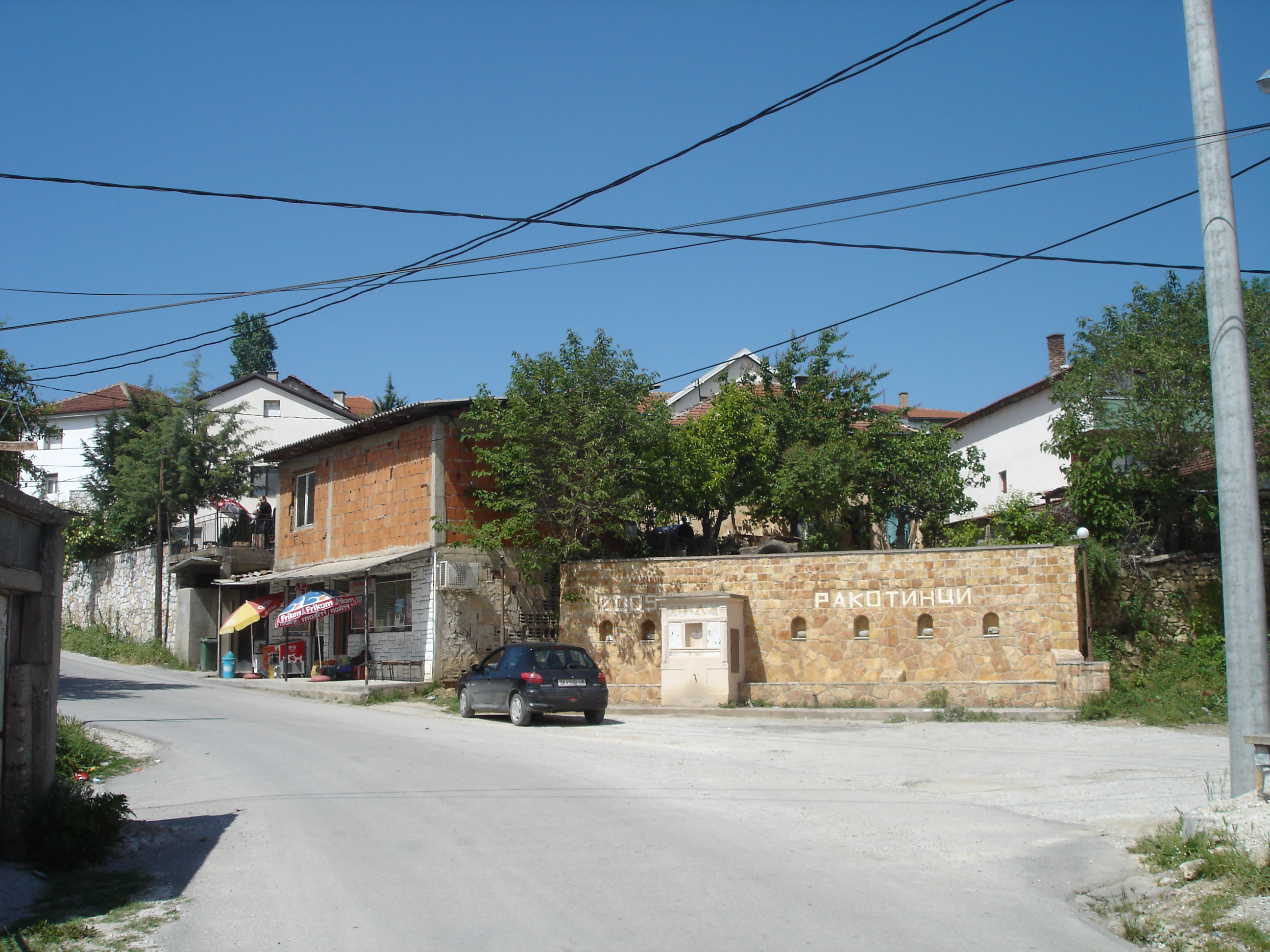 village of Rakotinci, Macedonia